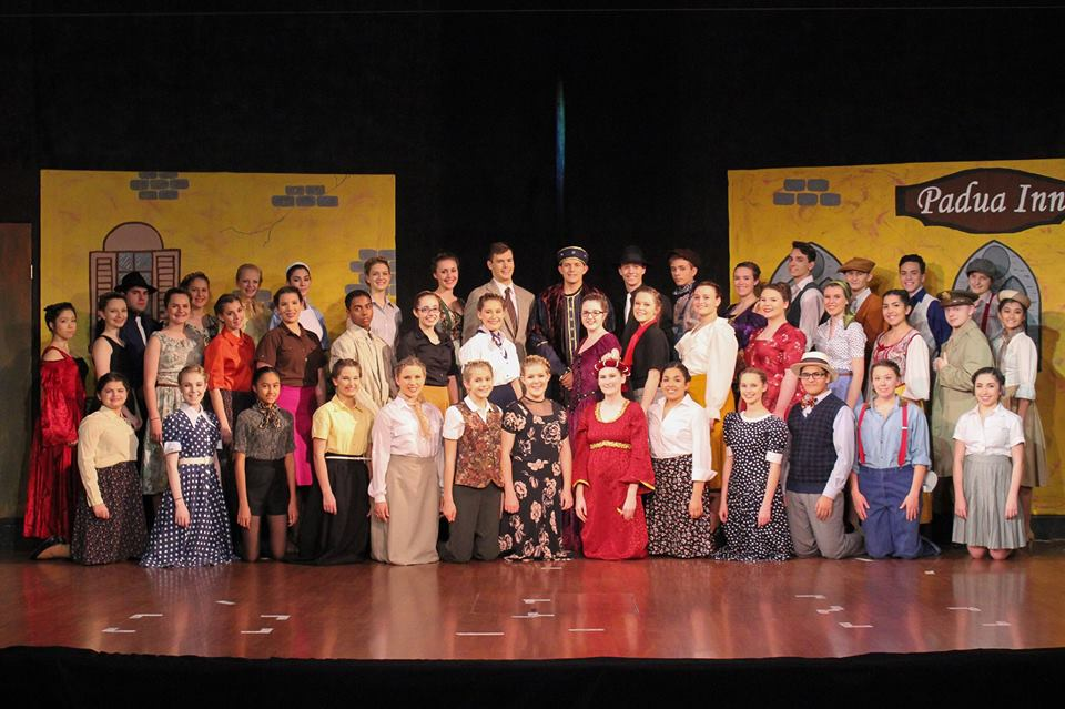 KMK Cast